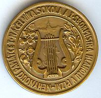 Medal of the Czech composer Hynek Palla. Revers